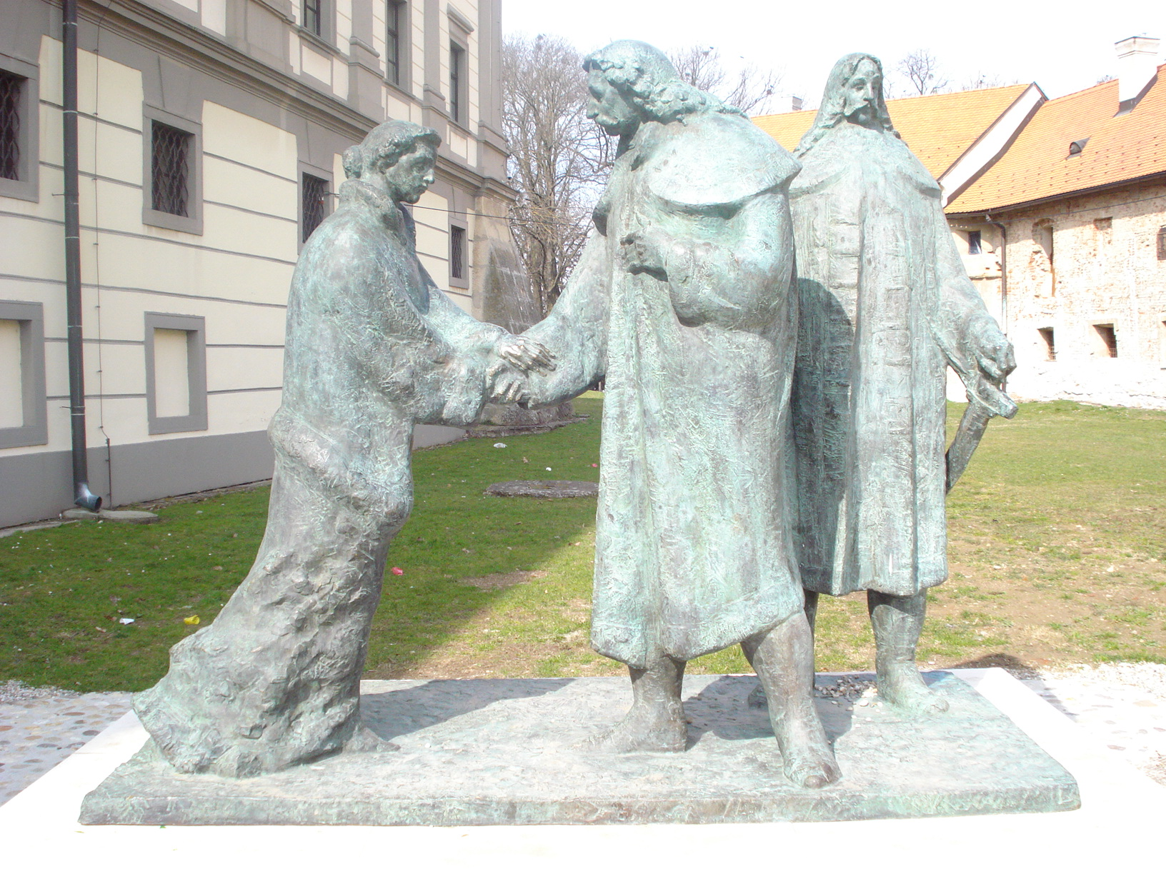 Farewell - Zrinski monument in Čakovec